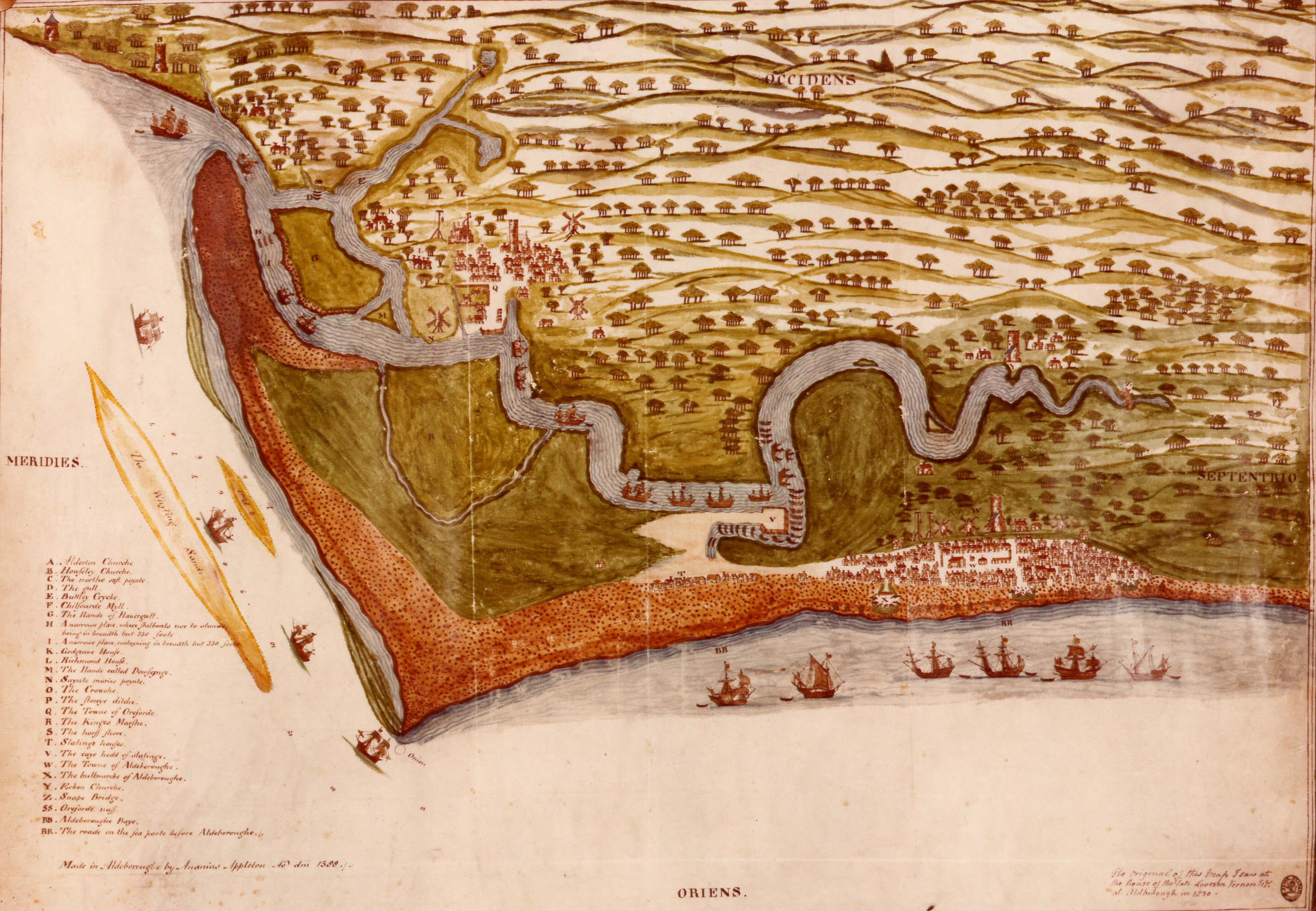 1588 map showing Aldeburgh, Orford, Orford Ness and the River Alde.